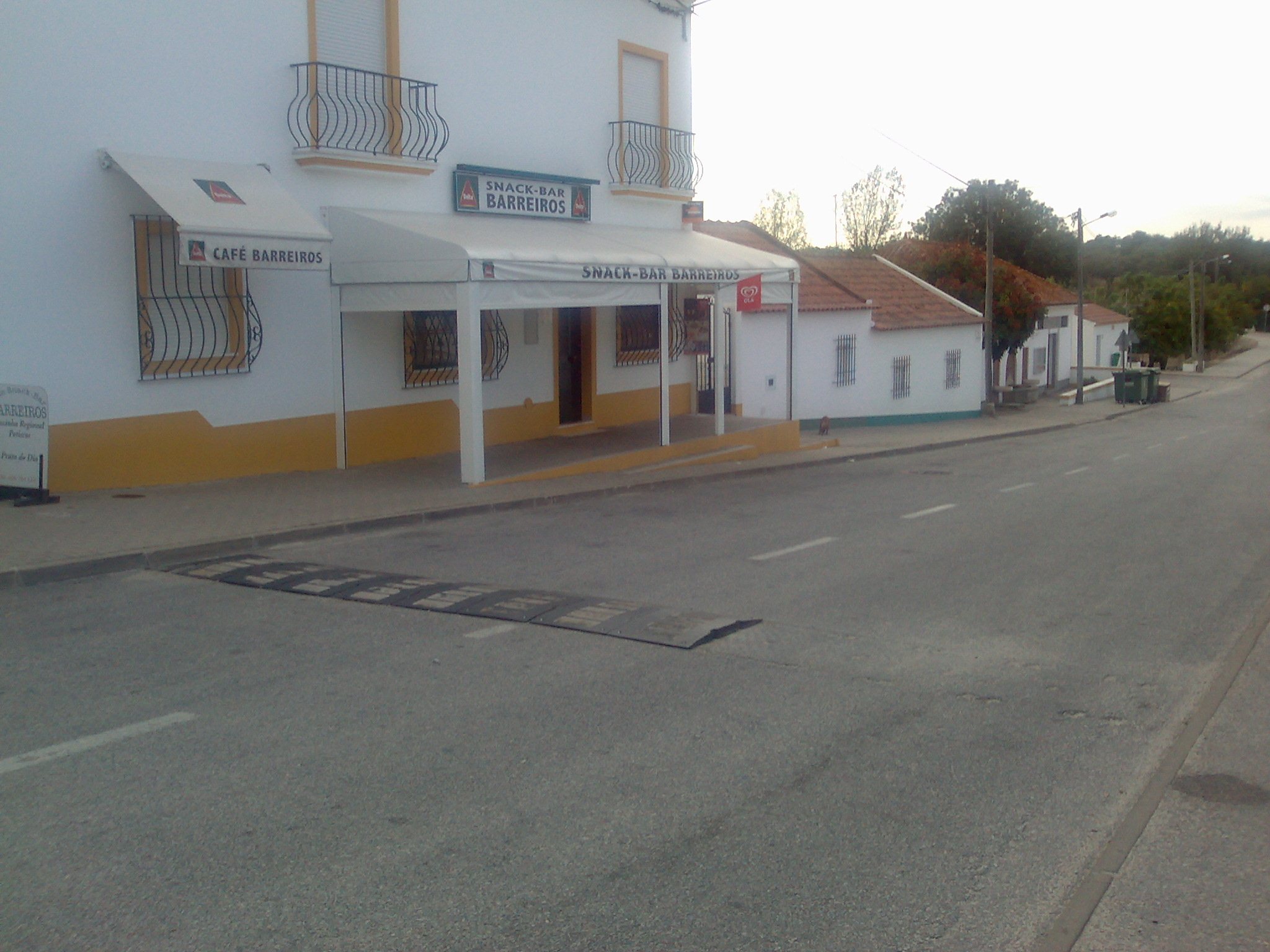 Nossa Senhora de Guadalupe ,Évora, Portugal